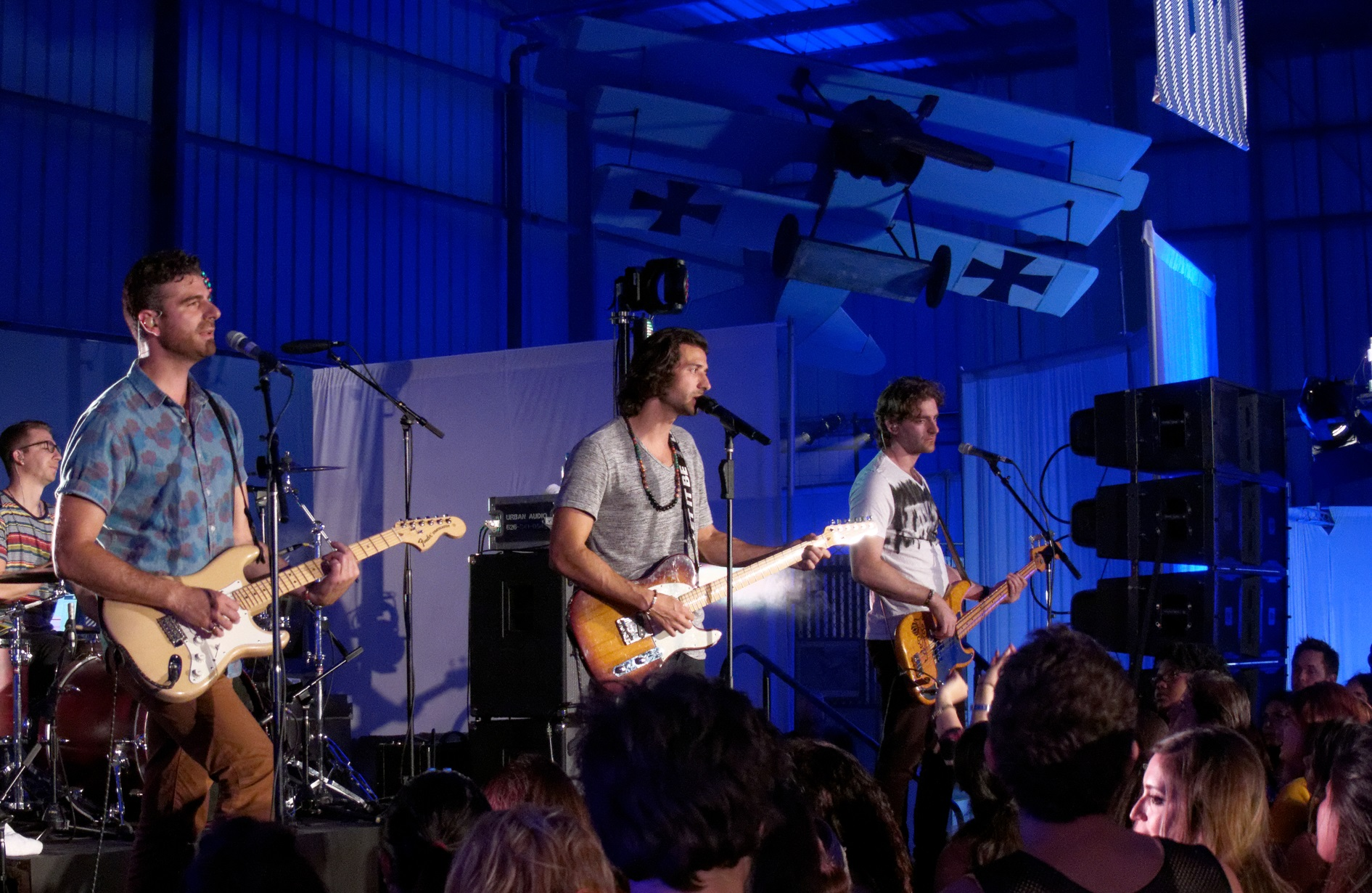 Magic performing live at the Commemorative WWII Air Force Aviation Museum in Camarillo California on Wednesday September 17th, 2014